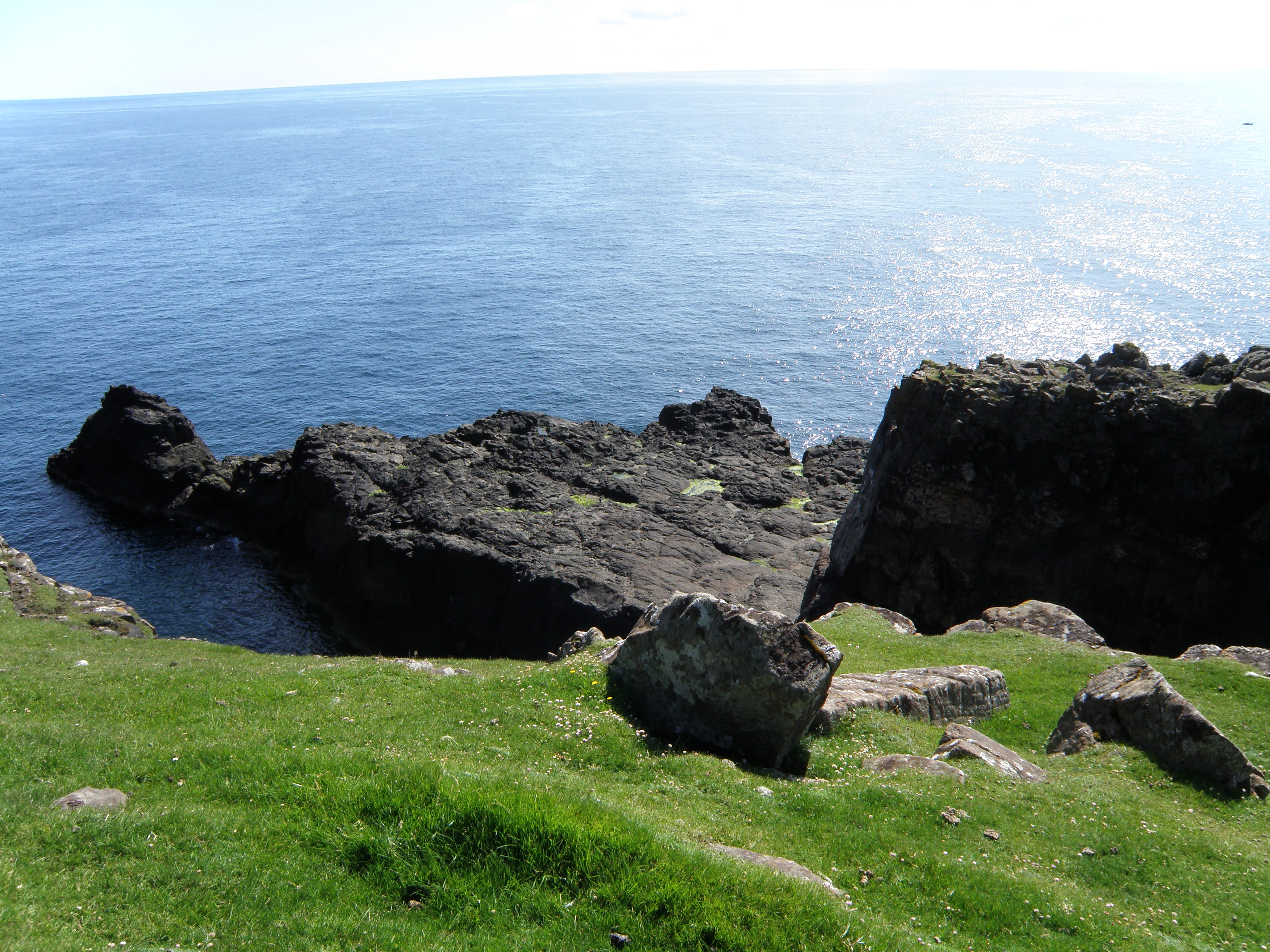 Lopranshólmur is an islet next to the island Suðuroy in the Faroe Islands. Lopranshólmur is located close to Lopranseiði, which is near the village Lopra. Lopranseiði is on the west coast of Suðuroy. Lopranshólmur is among the largest in the Faroe Islands, it is number 7 in size with 3,4 sqhm. Føroyskt: Lopranshólmur er ein av hólmunum í Føroyum. Hann er 3,4 hektarar til støddar og er 7 størsti hólmur í Føroyum. Lopranshólmur liggur vestanfyri bygdina Lopra og tætt við Lopranseiði, sum er á vestursíðuni á Suðuroynni.